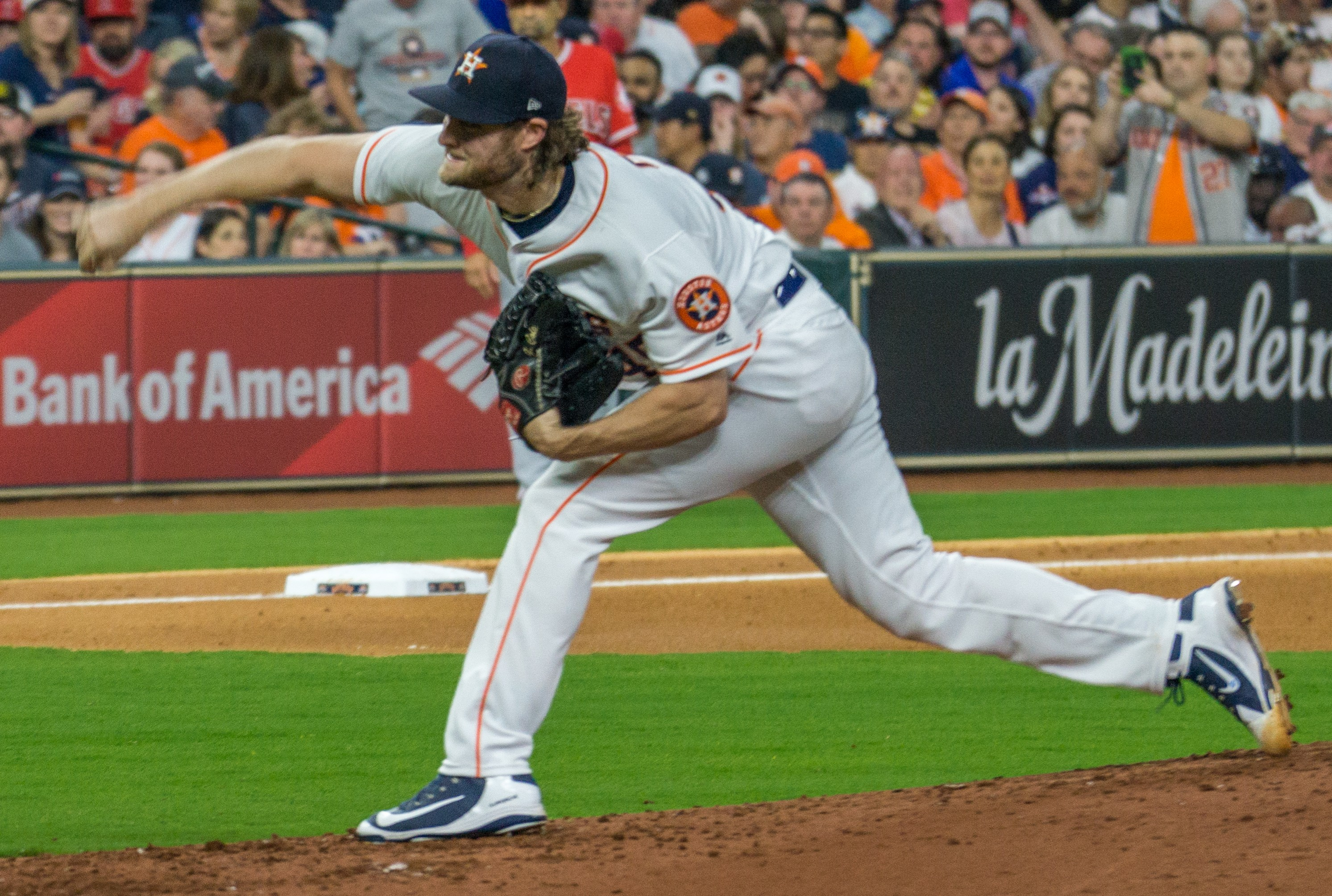 Astros vs Angels